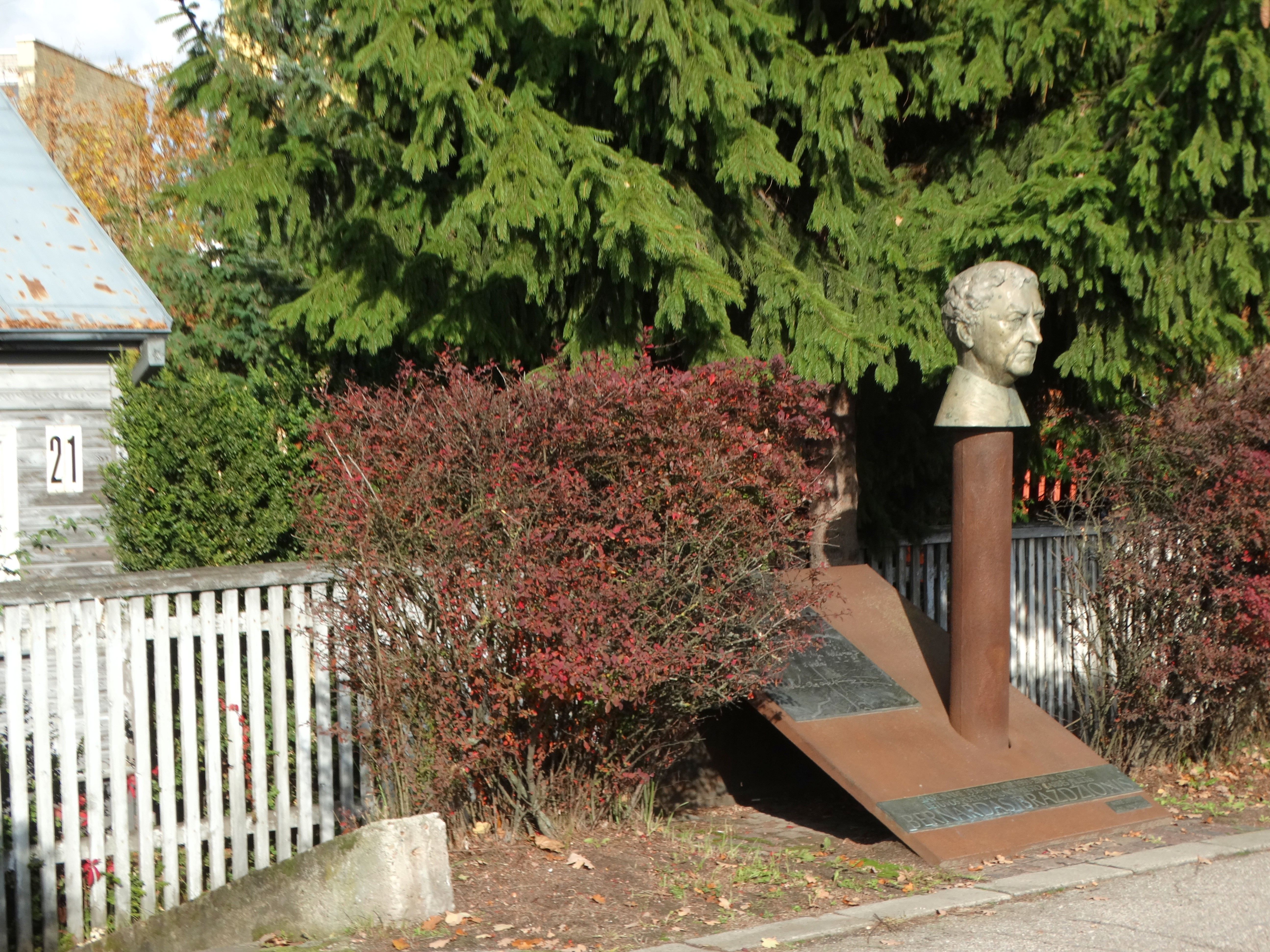 In memory of of Brazdžionis, Kaunas